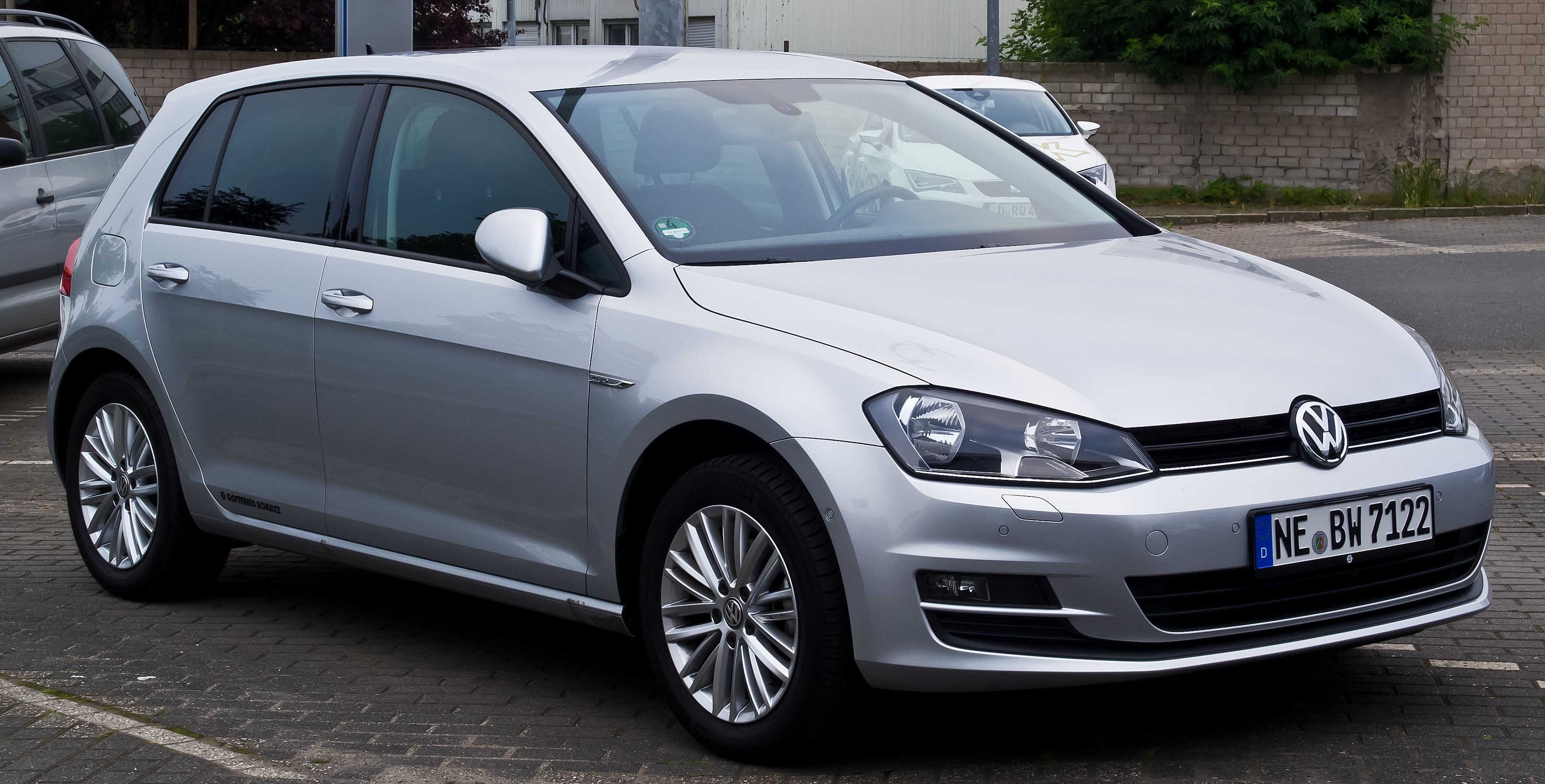 VW Golf 1.4 TSI BlueMotion Technology CUP (VII)